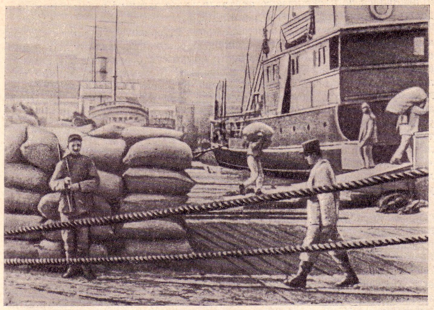 French troop in Odessa. 1919